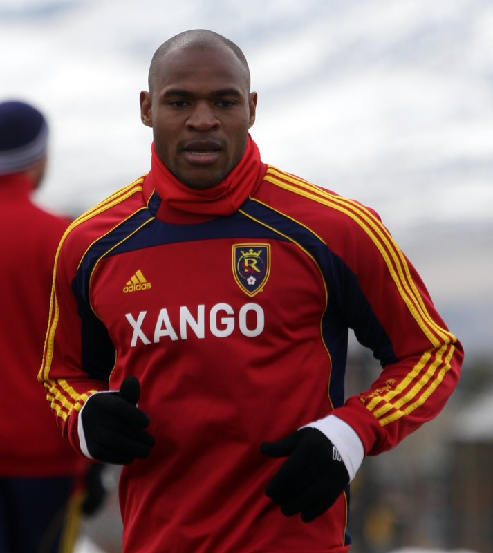 Jamison Olave with Real Salt Lake.